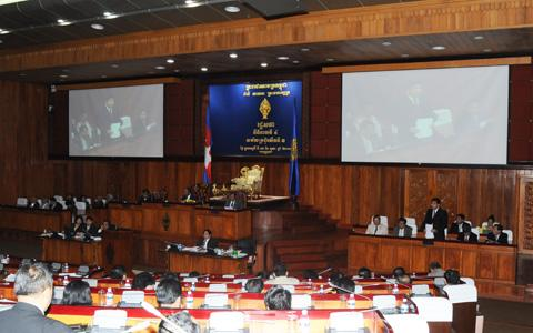 The Assembly, dominated by ruling Cambodian People’s Party officials, moved to oust the opposition last week, claiming the lawmakers from the Sam Rainsy and Human Rights parties must give up their seats because they have now joined in a coalition party.